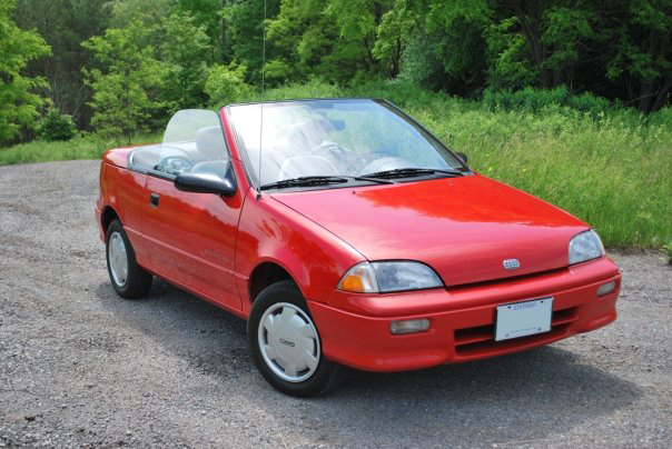 1992 Geo Metro convertible, photographed in the United States.